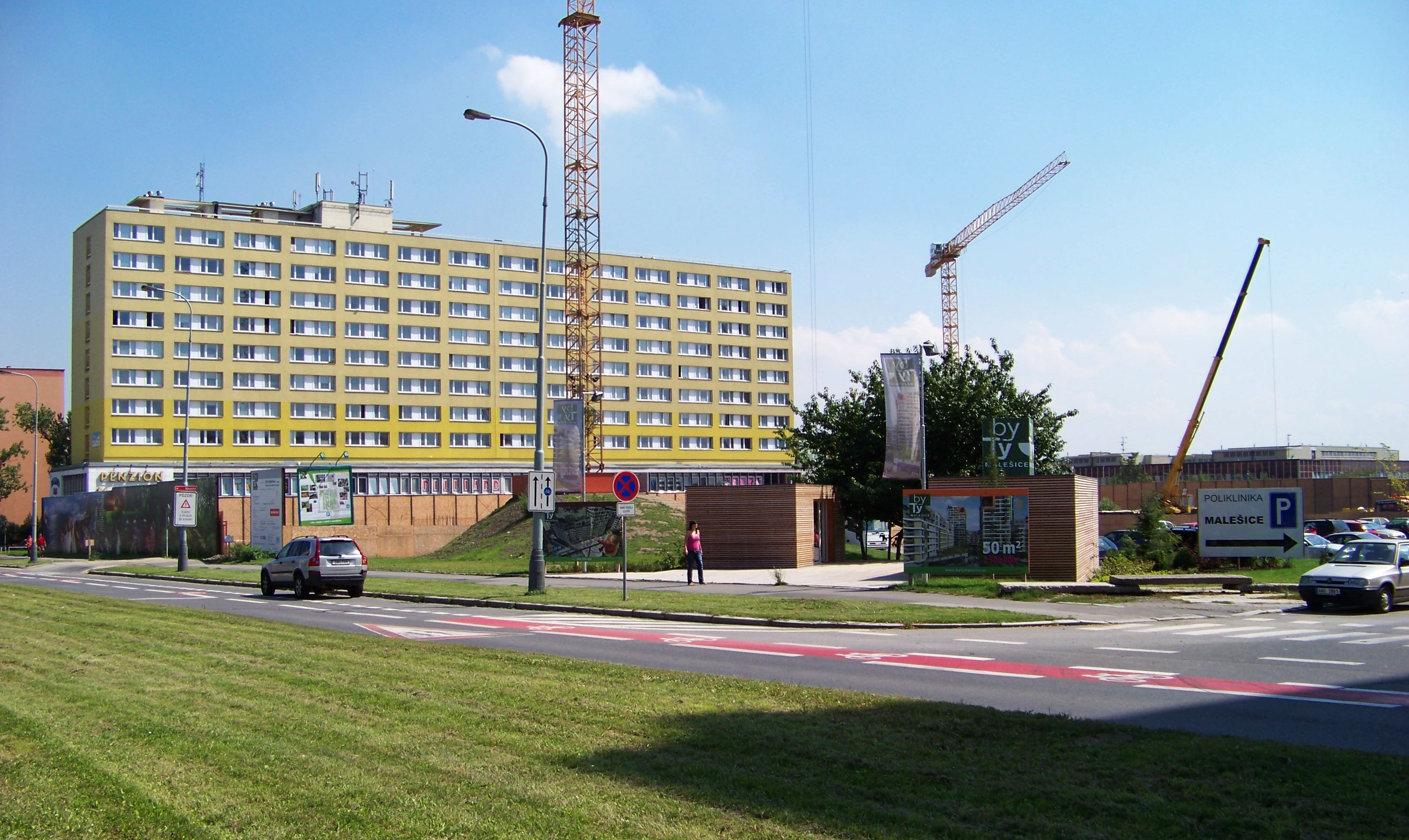 Prague-Malešice, the Czech Republic. Počernická street, construction of Centrum Malešice.